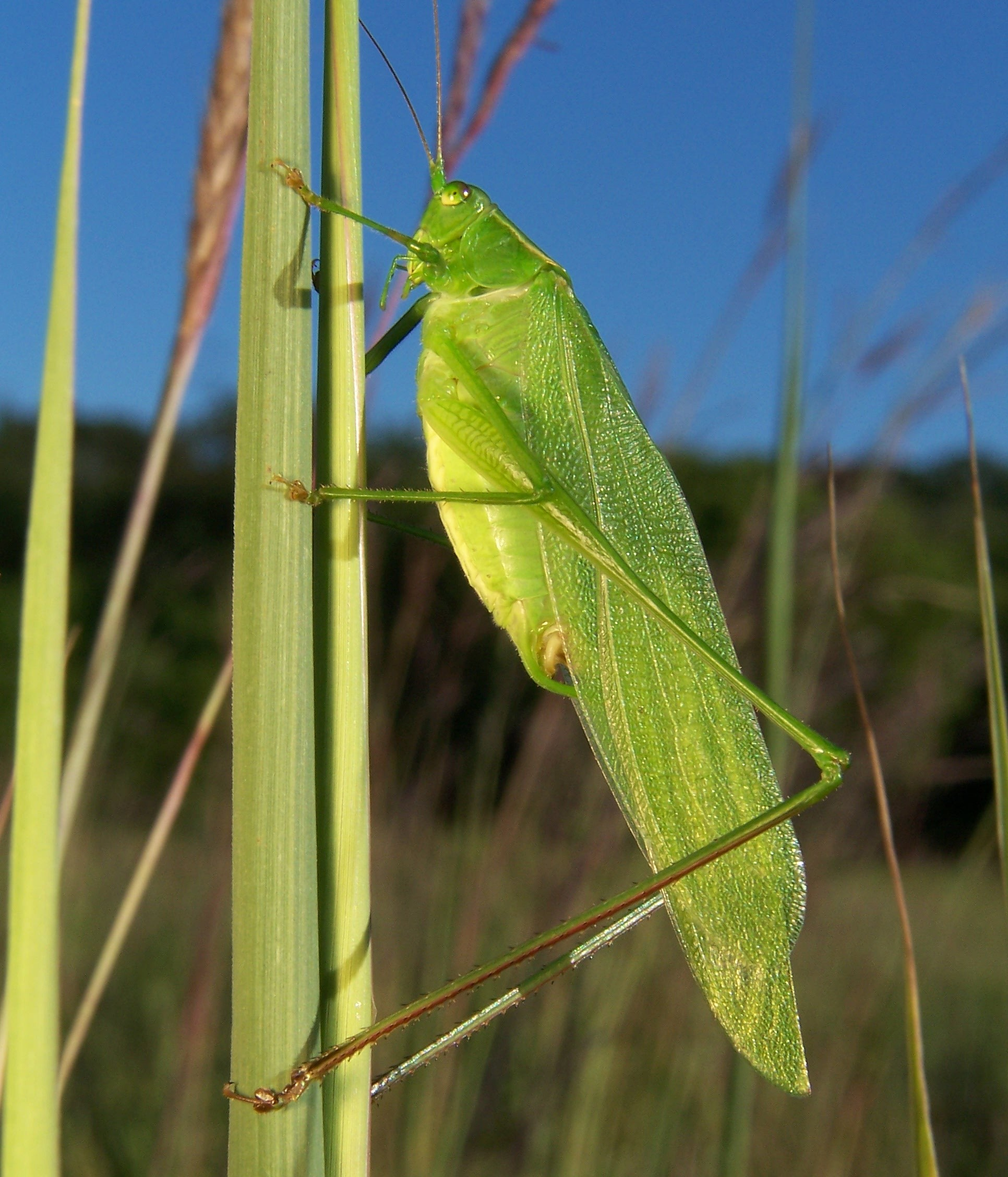 Adult male Bush Katydid Scudderia sp.